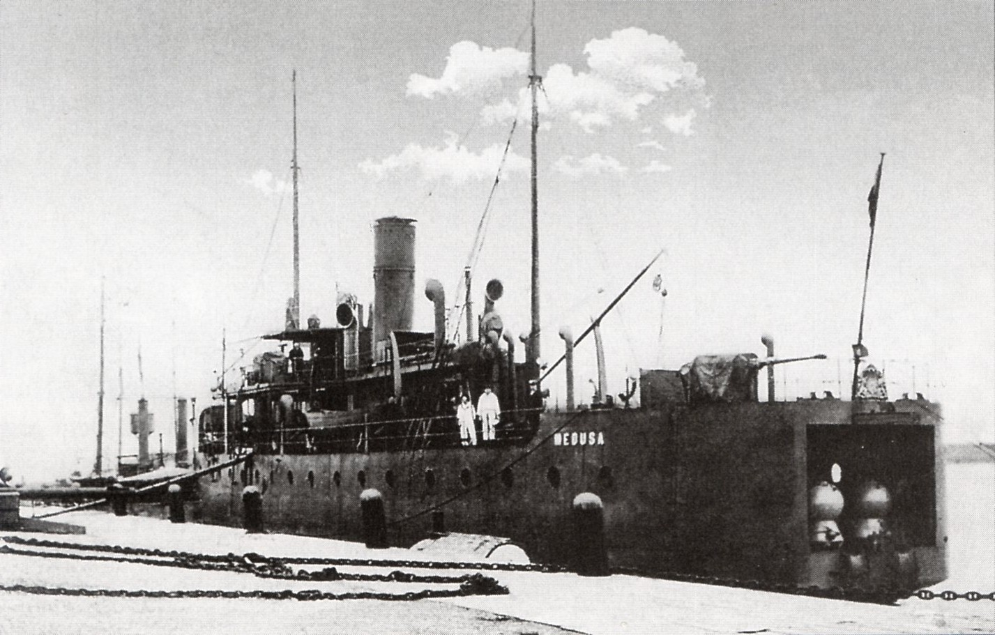 Dutch Hydra class minelayer Medusa, with mines